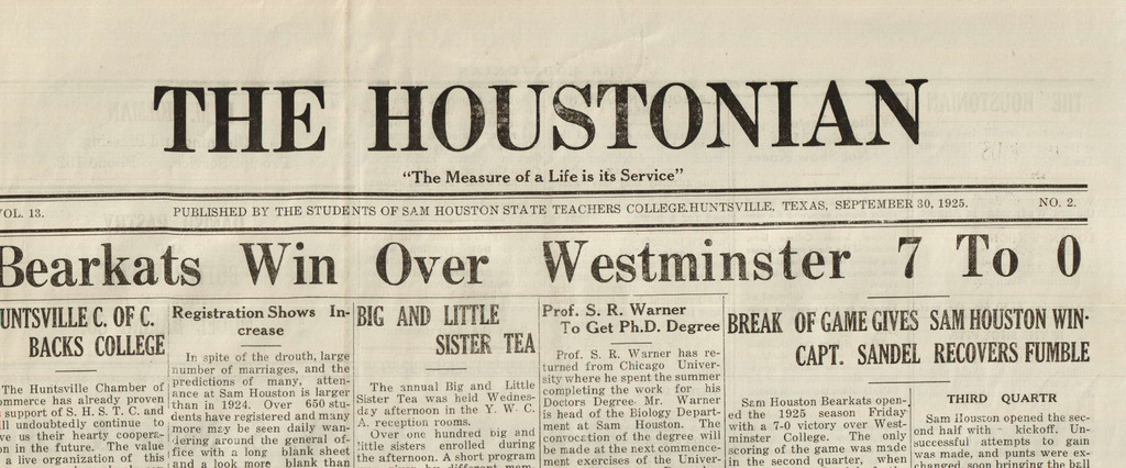 Front page of the newspaper The Houstonian